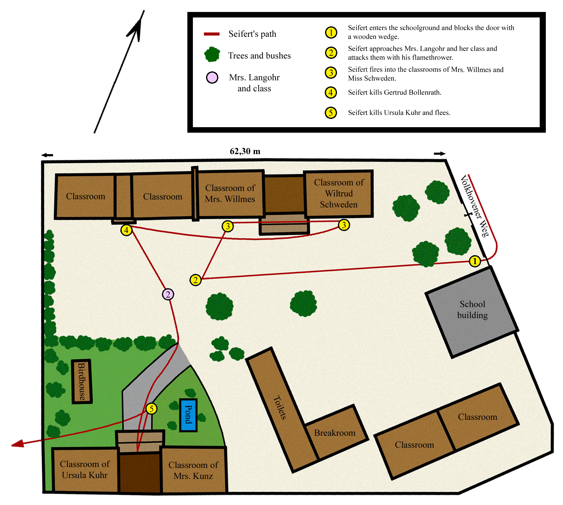 A map depicting mass murderer Walter Seifert's path through the Volksschule Volkhoven during the Cologne school massacre.